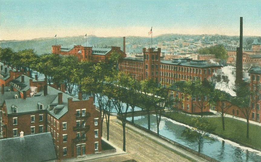 Bird's-eye View of Mills and Canal, Lewiston, ME Source from a c. 1915 postcard. If moved by bot, please review and clean up as necessary before marking image move OK here.